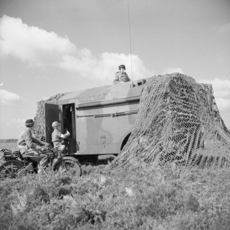 THE BRITISH ARMY IN THE UNITED KINGDOM 1939-45; Royal Corps of Signals motorcycle despatch riders arrive at the mobile headquarters of an armoured division, 30 August 1941. The vehicle is an AEC 4x4 Armoured Command Vehicle (ACV) Type 1.